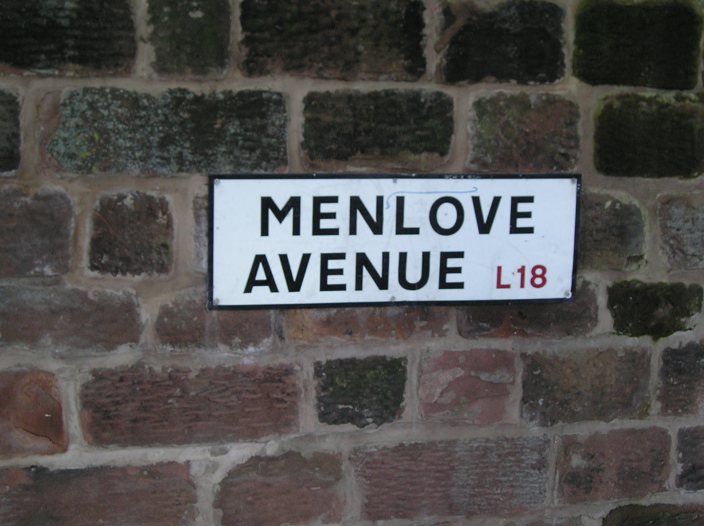 Liverpool L18, Menlove Avenue